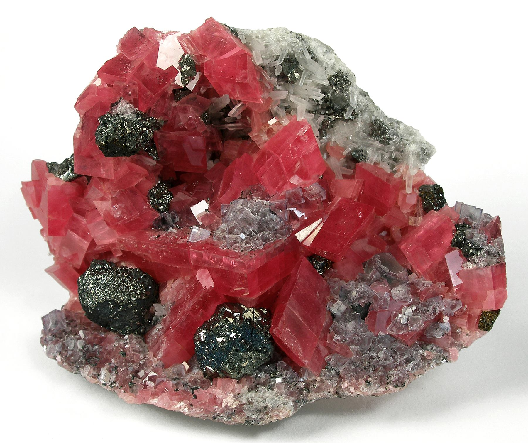 Fluorite, Quartz, Rhodochrosite, Tetrahedrite Locality: Sweet Home Mine (Home Sweet Home Mine), Mount Bross, Alma District, Park County, Colorado, USA (Locality at ) Size: cabinet, 10 x 8.4 x 4.8 cm Rhodochrosite with Fluorite,Tetrahedrite, Quartz This is a very appealing rhodochrosite, unusual in its combination with both fluorite and tetrahedrite. The tetrahedrite occurs as sharp , metallic crystals and may actually be overtopping large bornite crystals, it seems. The piece is very nearly pristine with but a few faint marks of wear seen by the educated eye only, and NO restoration or repairs whatsoever. The large central crystal is 5 cm across, and it is draped with fluorite and smaller rhodo crystals. The color I would rate as an 8.5 on a scale of 10 - and I can say honestly that it is what we called good color back when they were being mined - as opposed to what often passes for "acceptable color" on specimens I see at market today. The lustre is high, and the color saturation is uniform. This is an EXCELLENT piece overall, and has a huge amount of color for the price (again, considering what else I have seen on the market these days). The fluorites are sparkling and a nice lavender hue, in person. I purchased this piece for my private collection, of fine large Sweet Home rhodochrosite specimens, in 2006 at the Munich show. I have held it since, and am selling a few of my private collection rhodochrosites now only to finance acquiring a yet larger specimen. Jeff Scovil Photo (on green background).